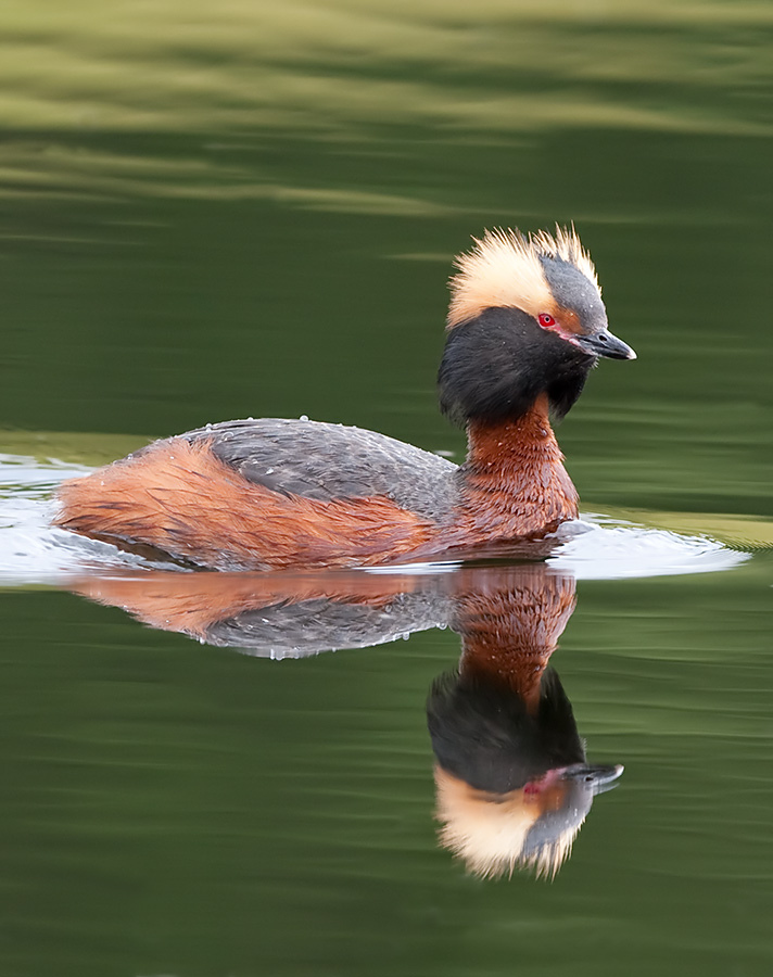 A Horned Grebe (also known as Slavonian Grebe) in Scotland.